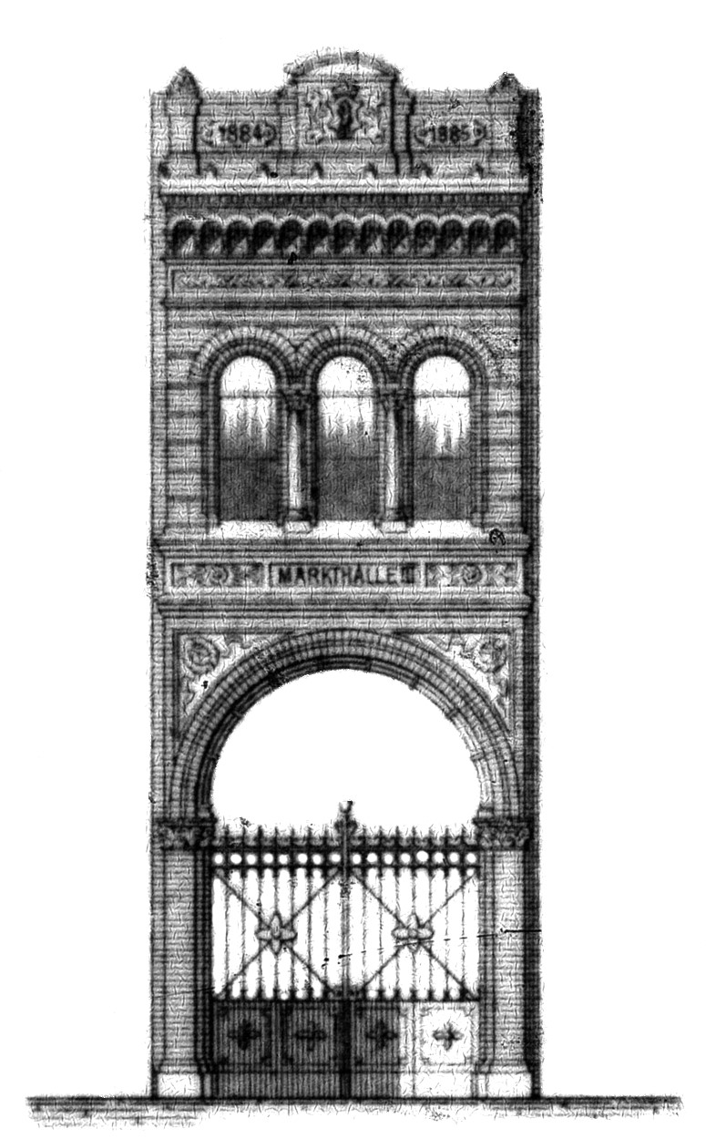 Berlin - market hall III, facade Mauerstraße